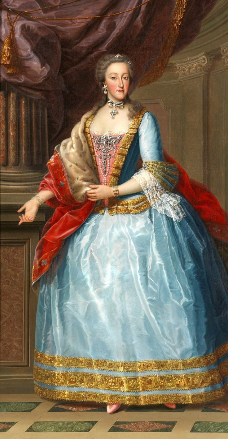 Elisabeth Therese of Lorraine (1711-1741) as Queen of Sardinia